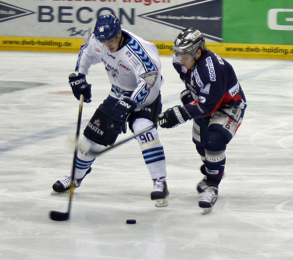 Jerome Flaake holding off an Eisbären Berlin player while playing for the Hamburg Freezers at the O2 Arena in Berlin.